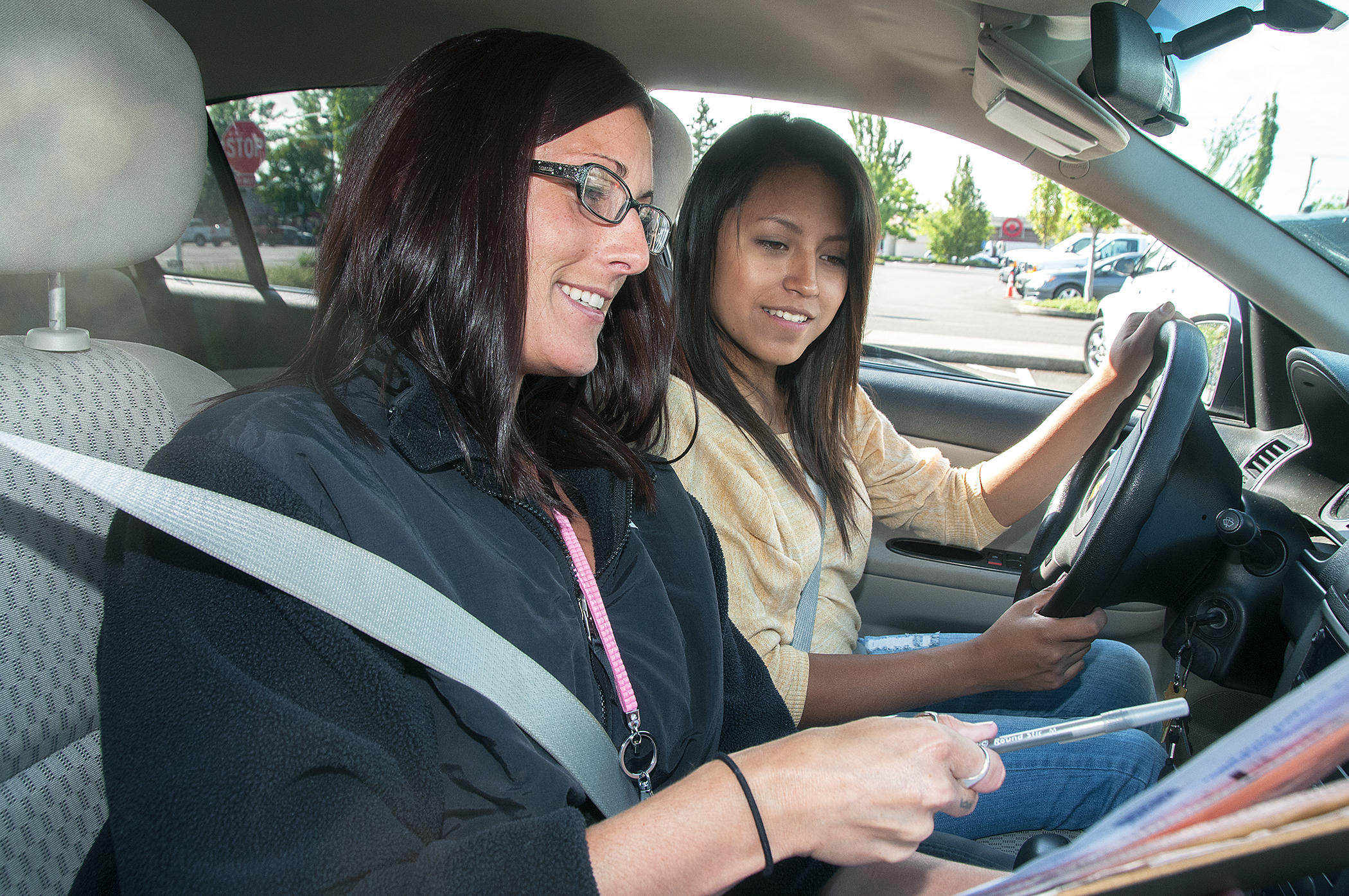 A DMV examiner explains what will happen on the drive test before hitting the road.